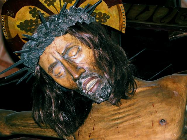 Image of the Holy Christ of Balaguer. (la Noguera, Catalonia)